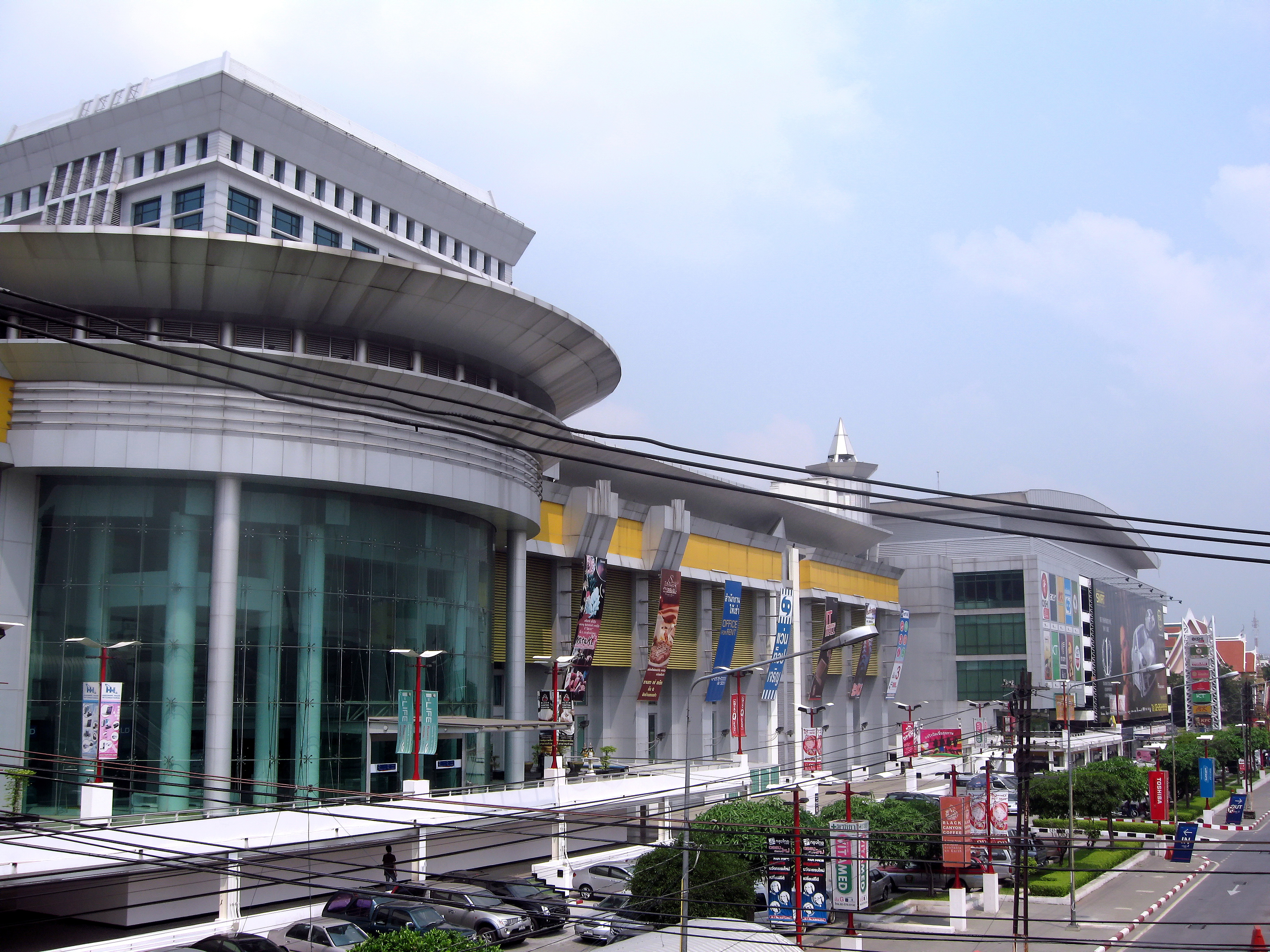 IT Square Laksi